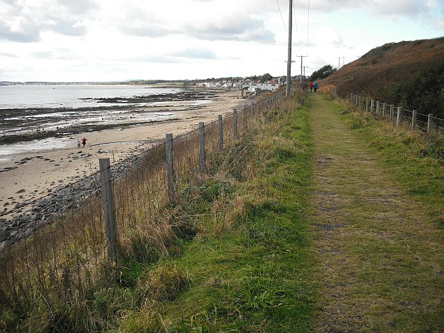 Fife Coastal Path The path uses the trackbed of the Leven and East of Fife Railway out of Lower Largo. The beach is there as an alternative when the tide allows.